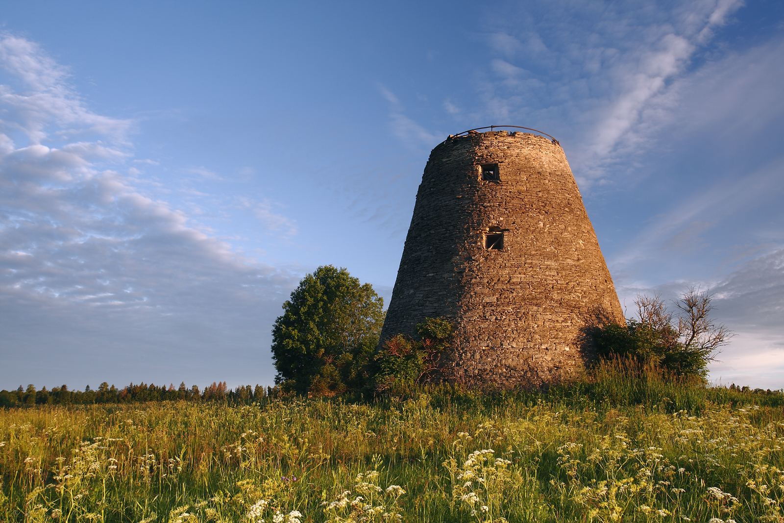 Windmill in village Ervita, Järvamaa, Estonia